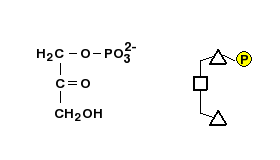 Dihydroxyacetonaphosphate